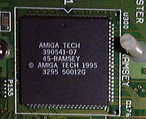 "Ramsey" custom chip used in Commodore Amiga 4000 series computers.